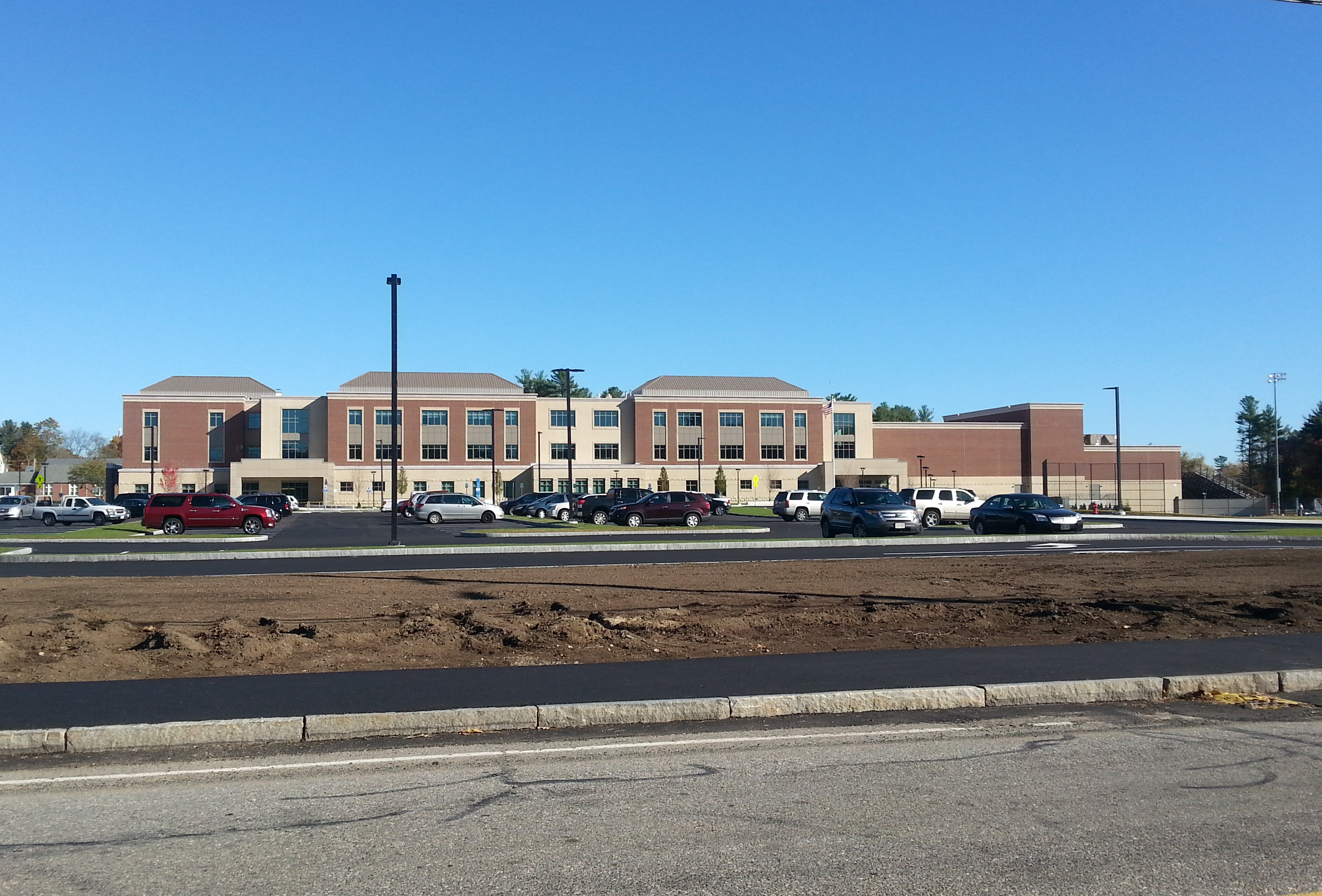 I personally took this pict from Adams St.